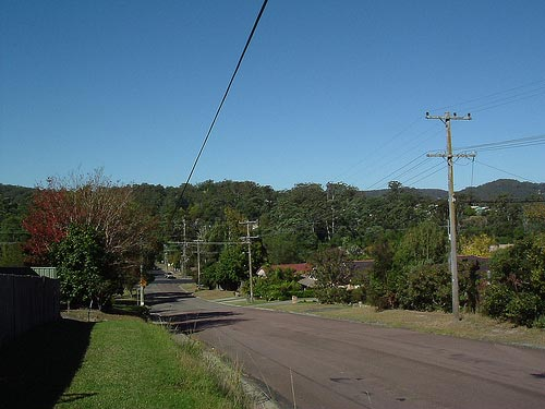 Looking down Deane Street towards the train station in Narara, NSW, Australia. Available in high resolution at